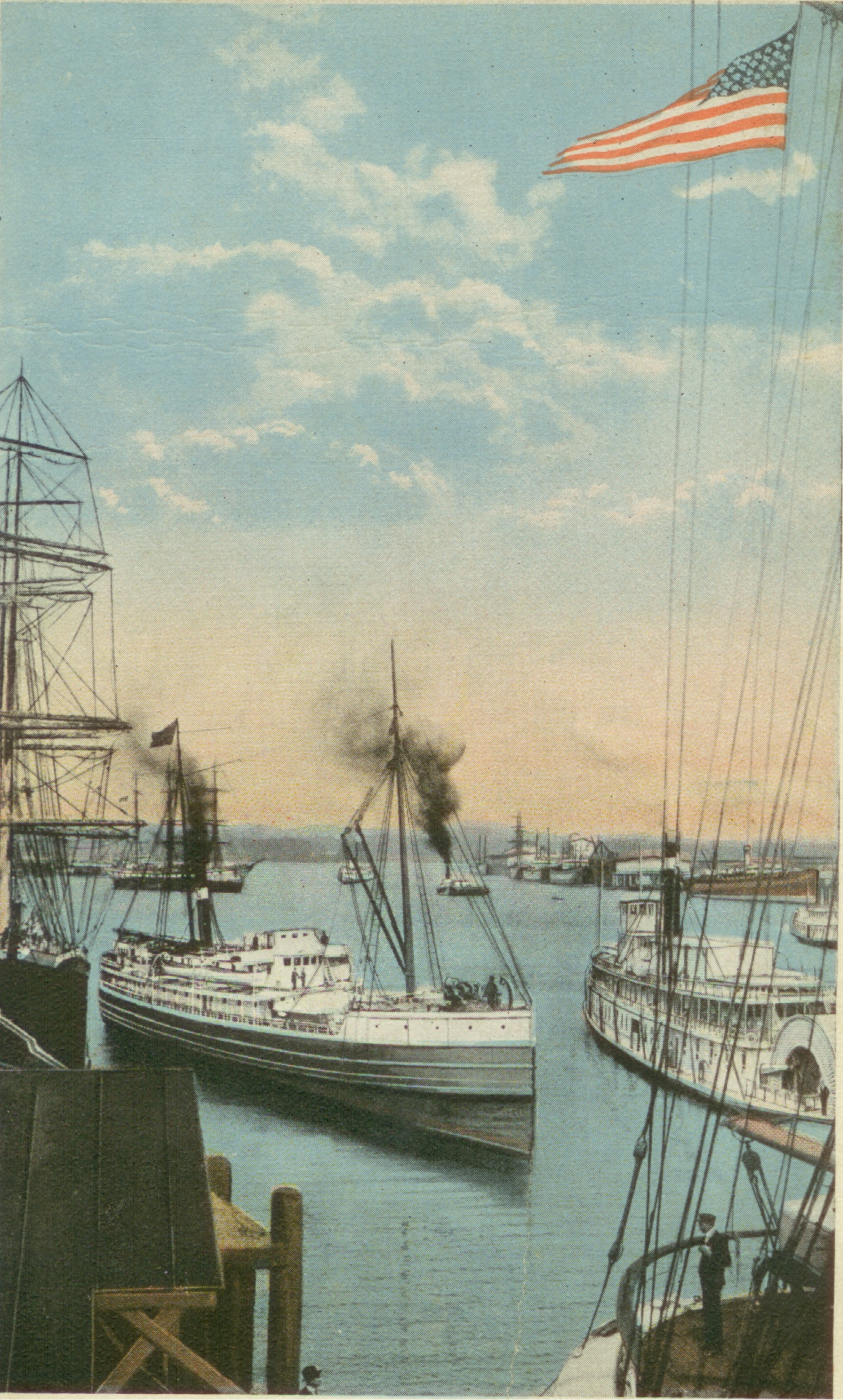 From a colorized photo postcard. Back of card is consistent with pre-1920s publication and large sternwheeler on right in photo was the Bailey Gatzert, which ceased operations in Portland, Oregon in 1917.